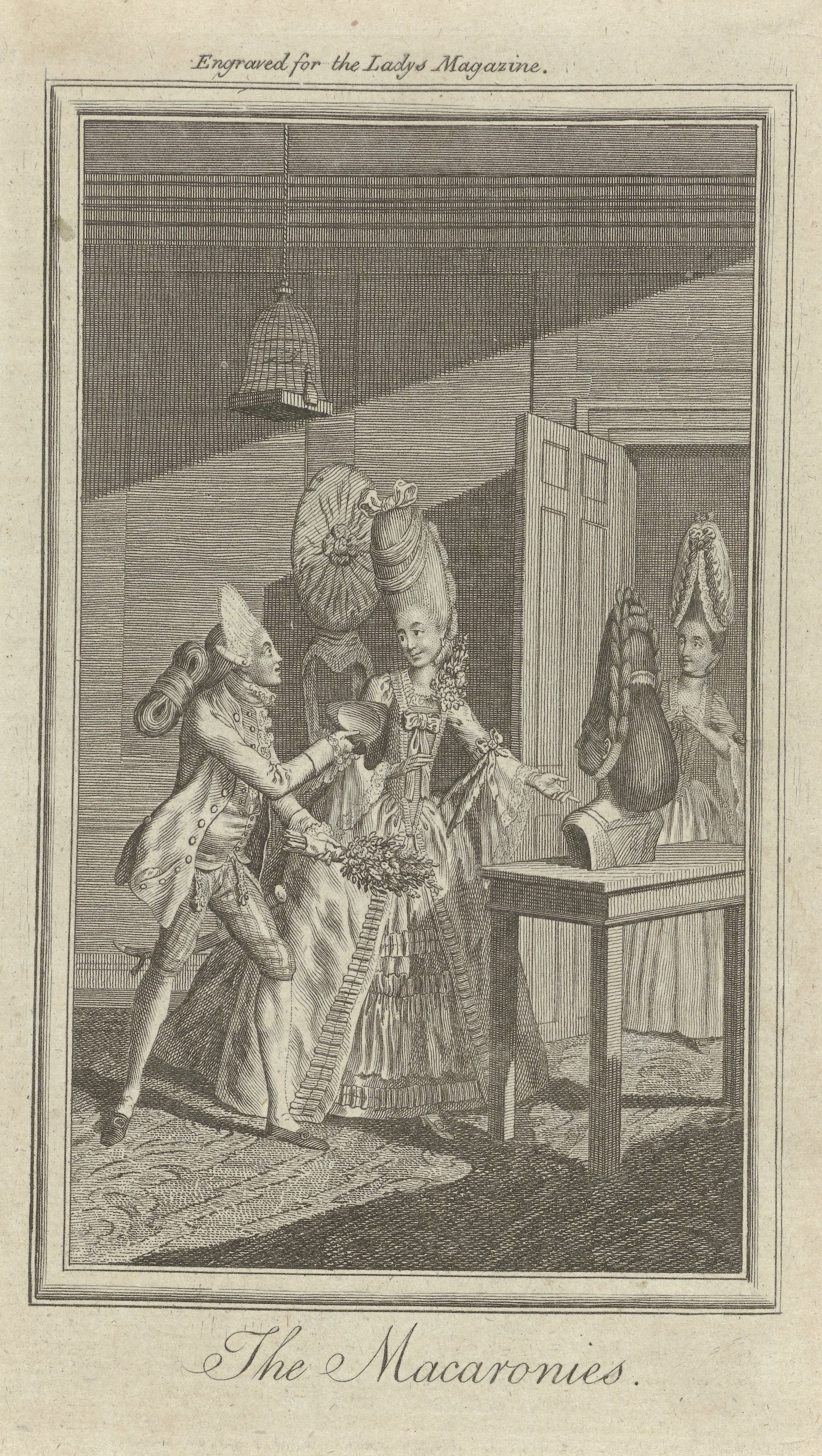 Engraved for the Ladys Magazine.